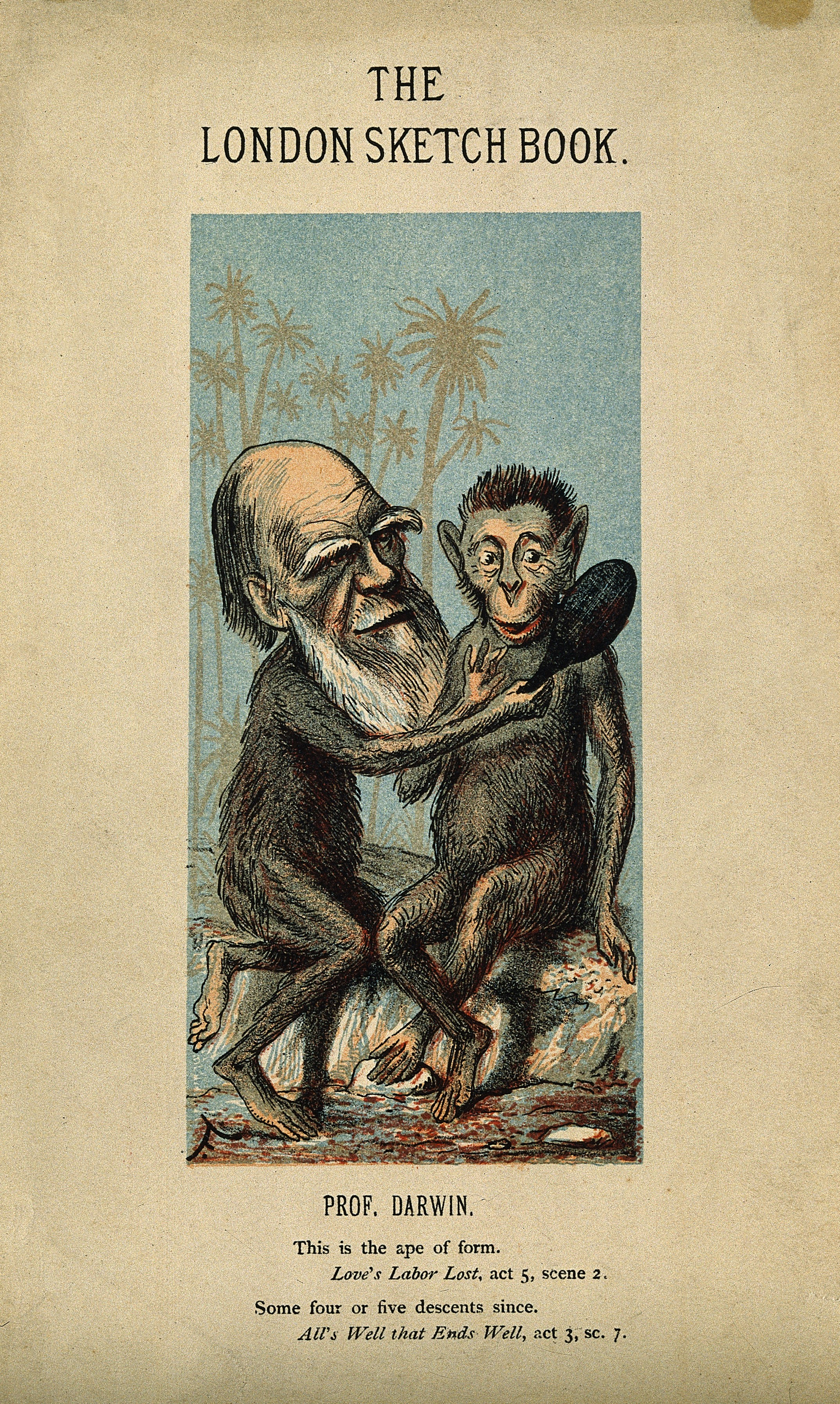 Topic-LCSH: Naturalists. Genre/Technique: Portrait prints. Lithographs. Subject name: Darwin, Charles, 1809-1882.